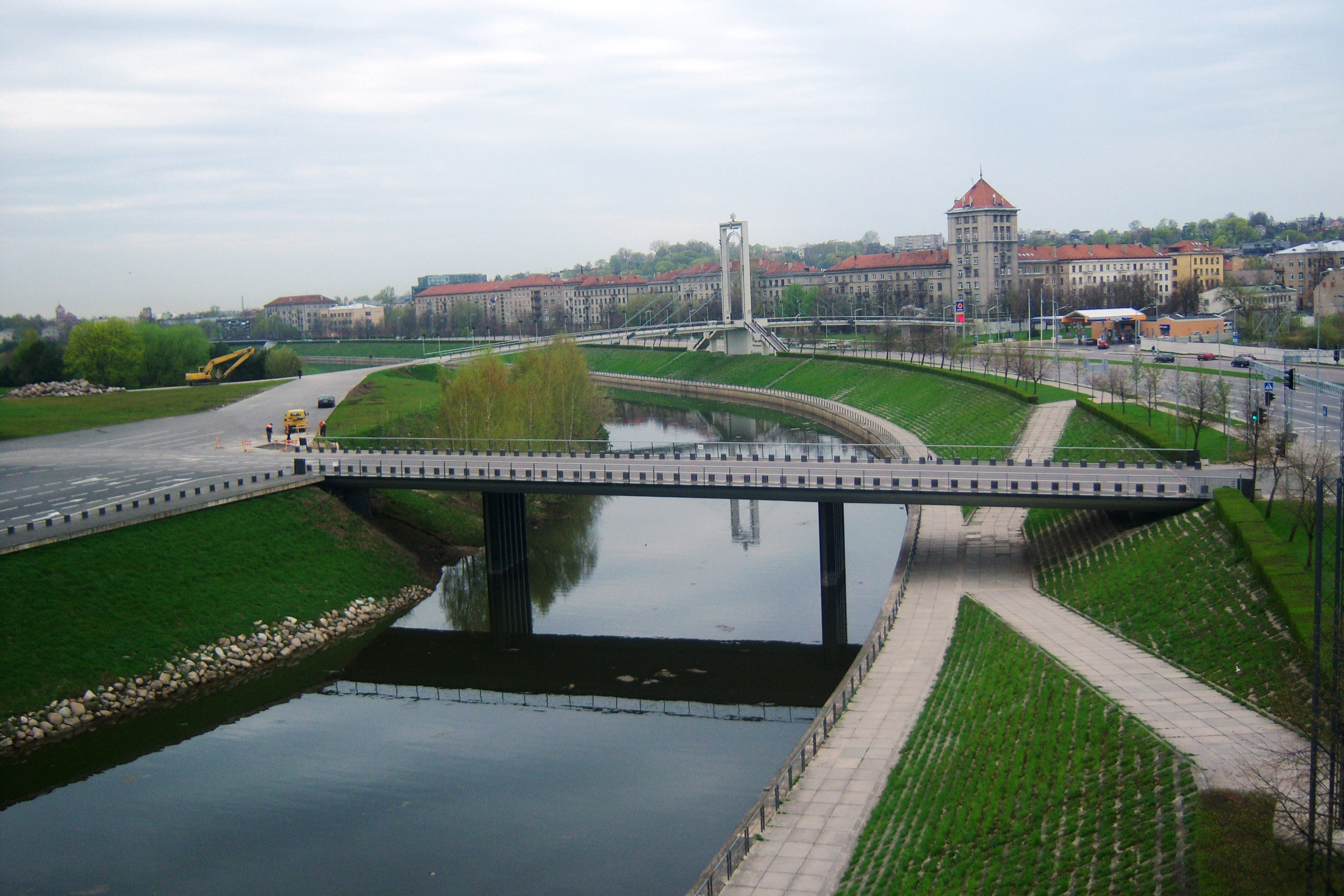 Bridge to Nemunas Island from A. Mickevičiaus Street, Kaunas, Lithuania